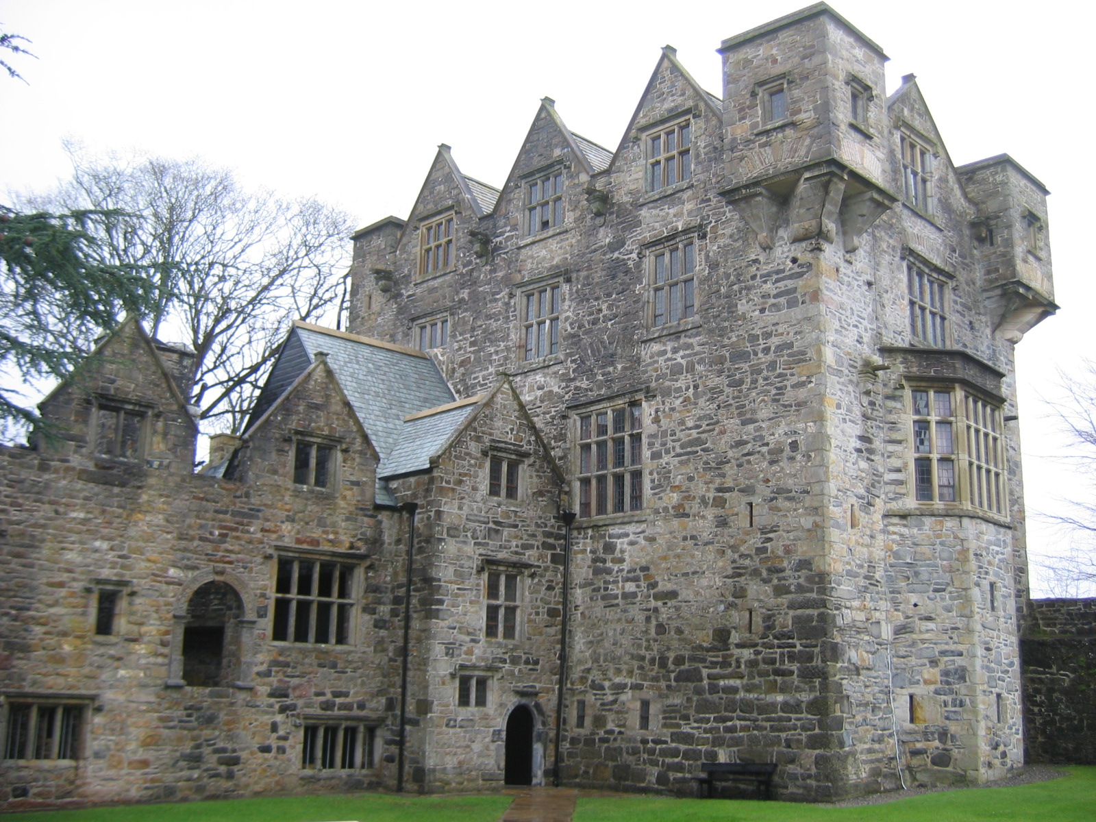 Donegal Castle, Ireland